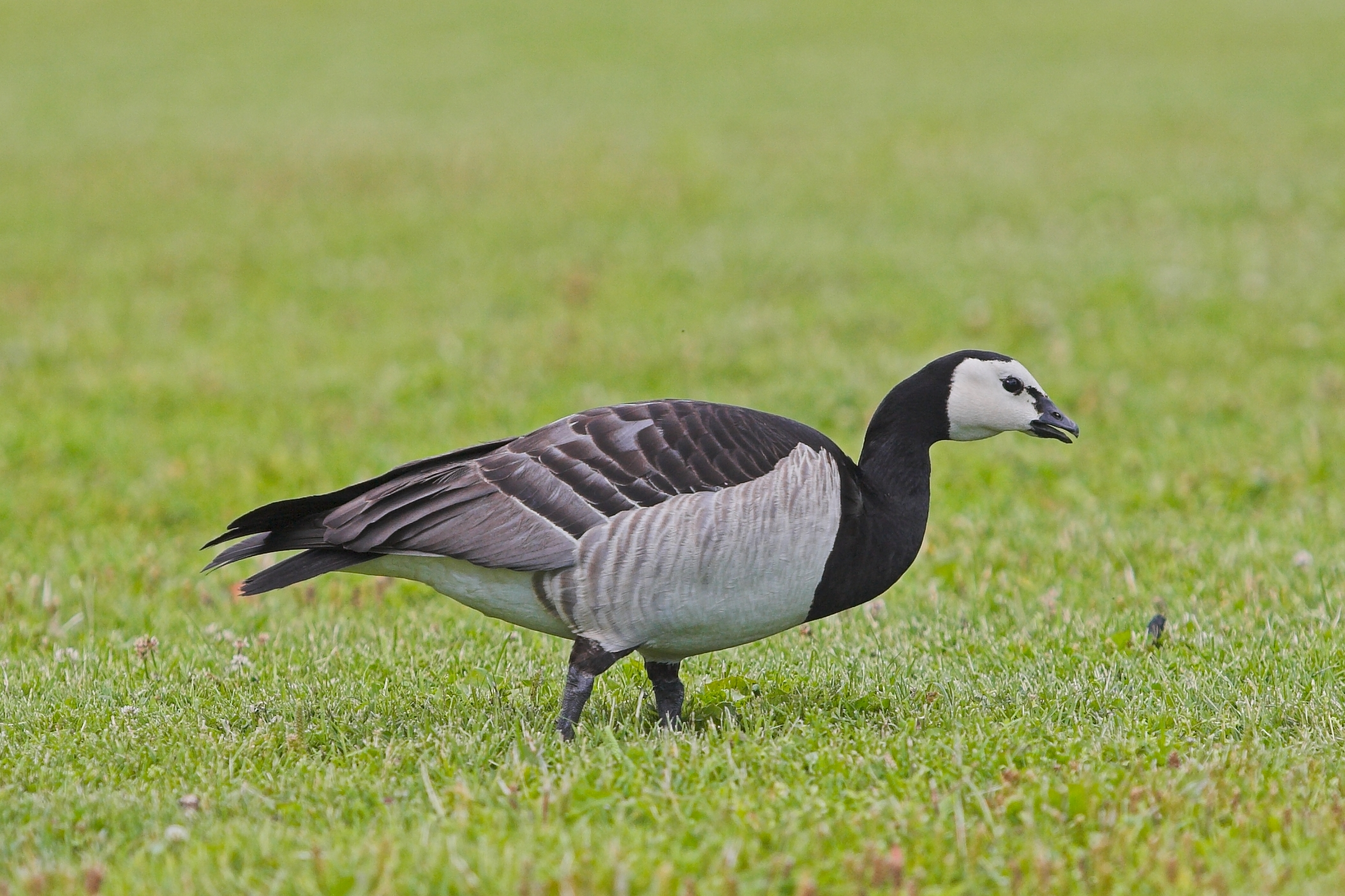 Barnacle Goose (Branta leucopsis) on the lawn by Finnish National Opera. Photo by Thermos.